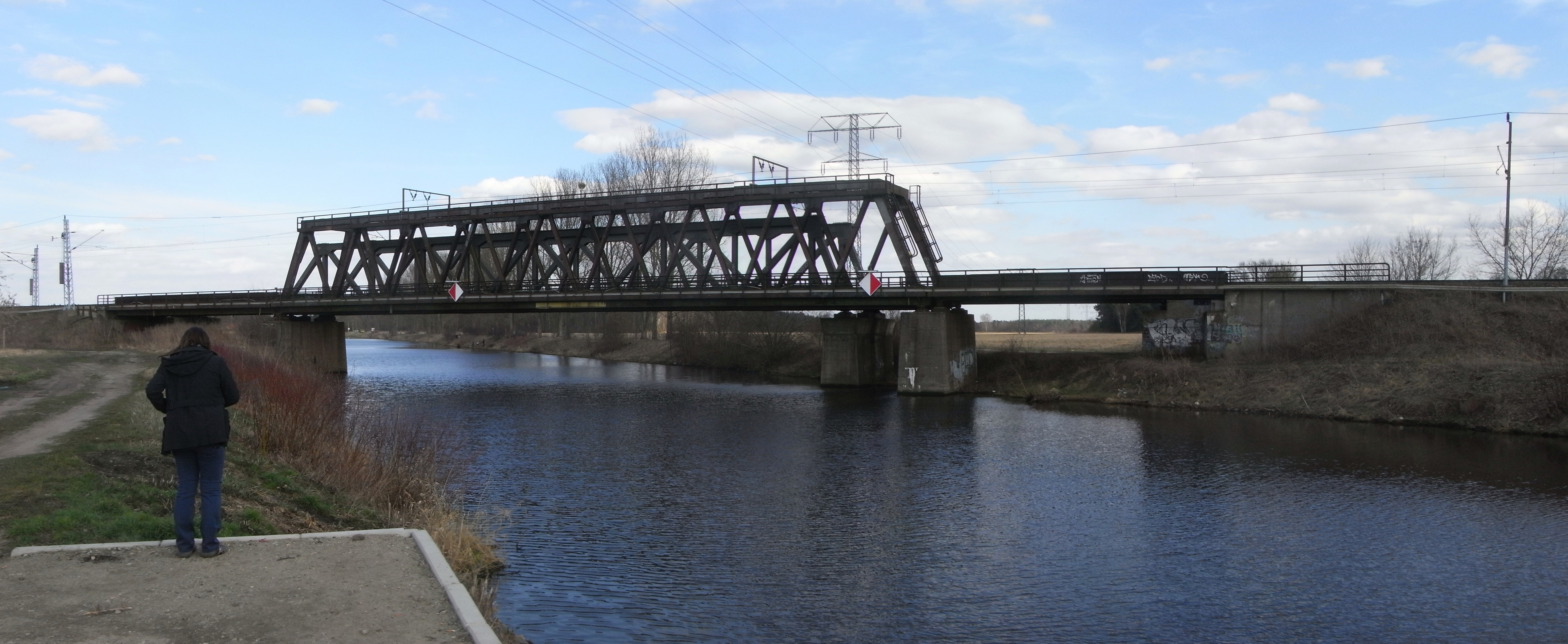 Bridge of the outer Berlin railway circle crossing the Havelkanal near Schönwalde/Glien